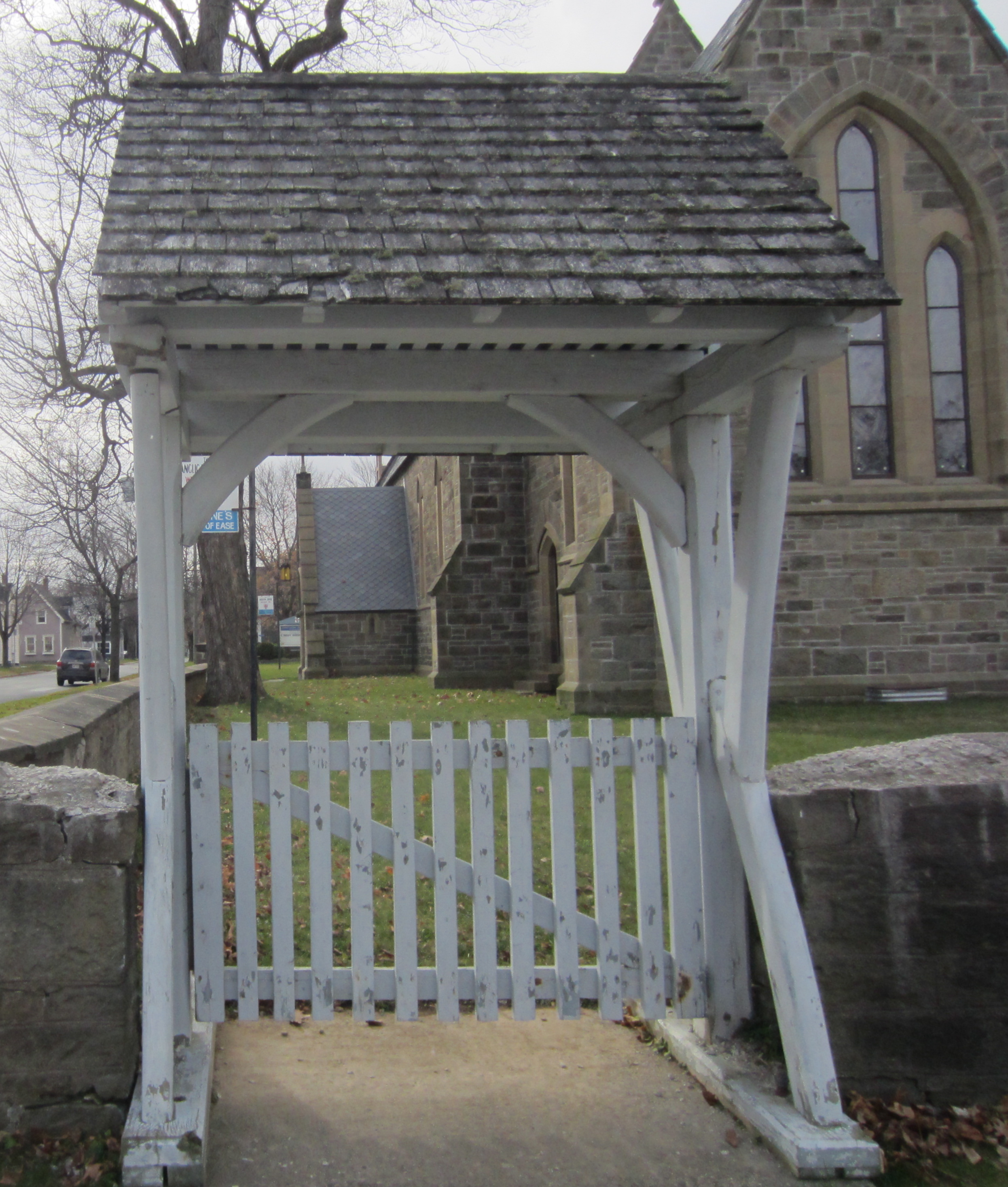 The lychgate at St. Anne's Chapel of Ease in Fredericton, New Brunswick, Canada. The church entrance can be seen through the gate.